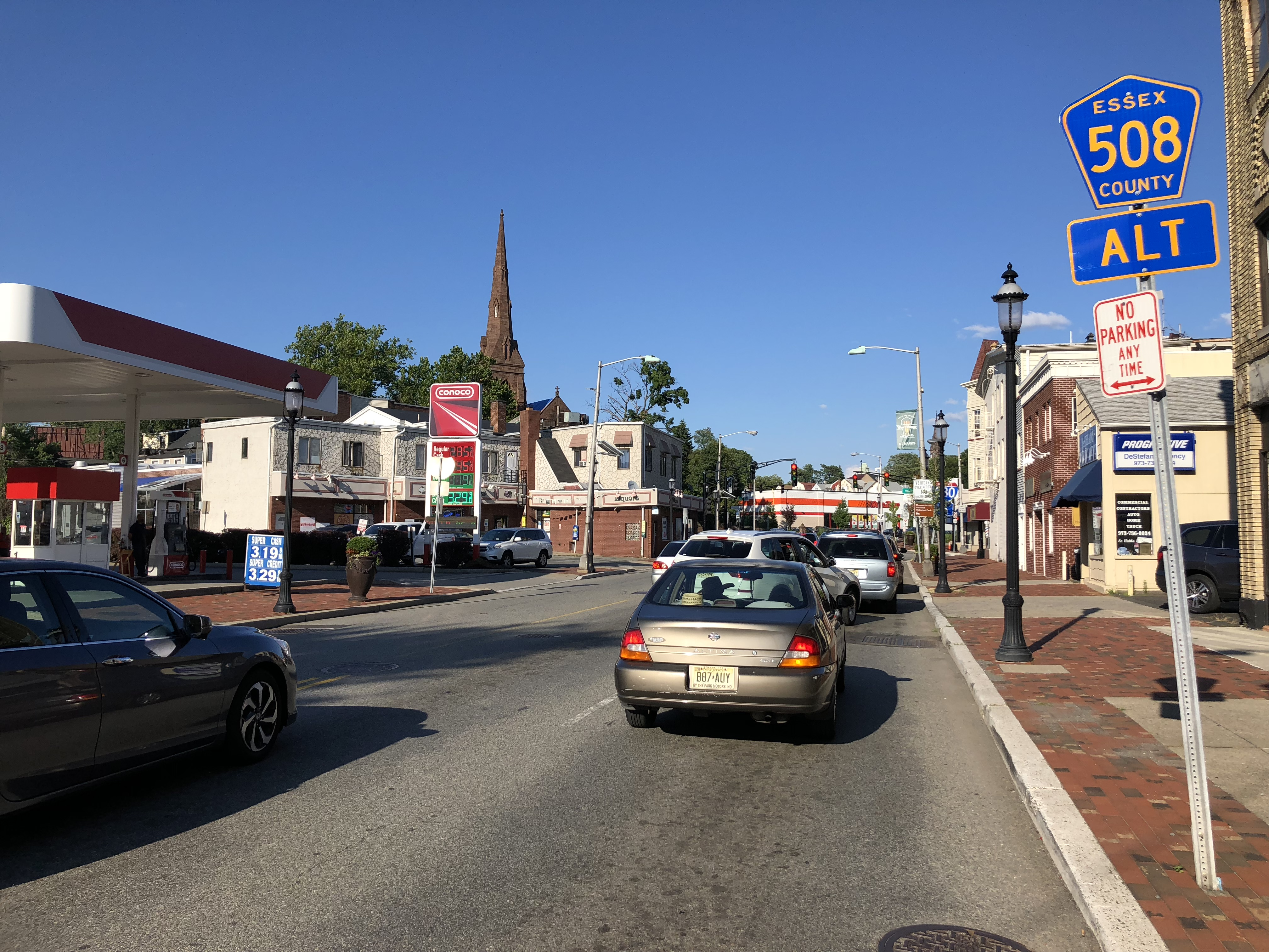 View east along Essex County Route 508 Spur (Northfield Avenue) between Wheeler Street and Essex County Route 659 (Valley Road) in West Orange Township, Essex County, New Jersey